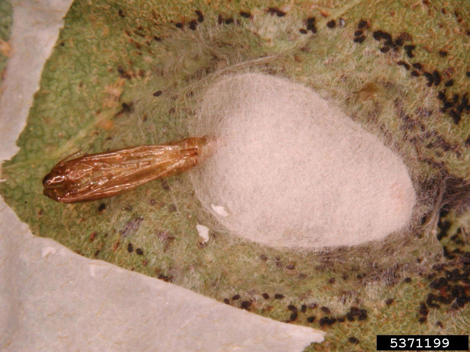 Phyllonorycter robiniella